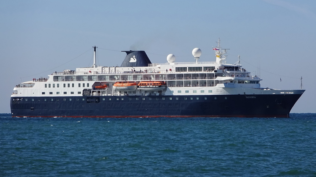 Minerva underway in Black Sea, Krasnodarskiy Kray, Sochi 8 October 2015